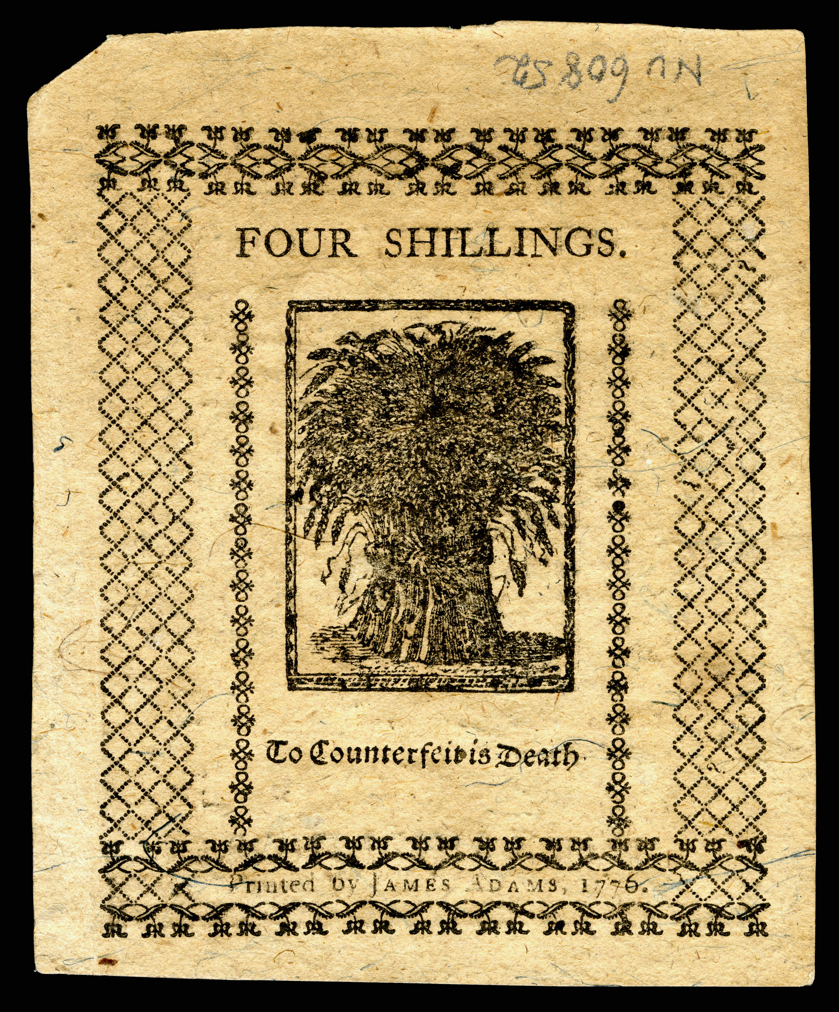 Reverse of 4s Colonial currency from Delaware Colony. Signed by John McKinly, Thomas Collins, and Boaz Manlove. Printed by James Adams.(Friedberg Colonial ref# DE-76).